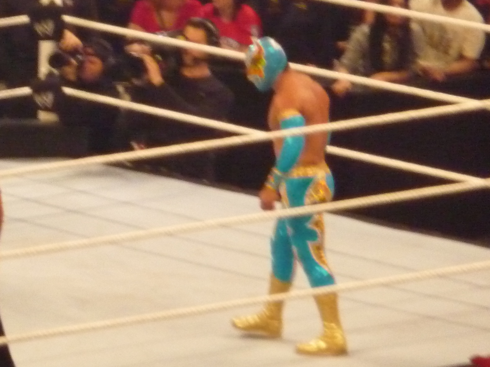 Sin Cara in the ring at the WWE Raw tapings on April 18, 2011 at the O2 Arena in London, England.